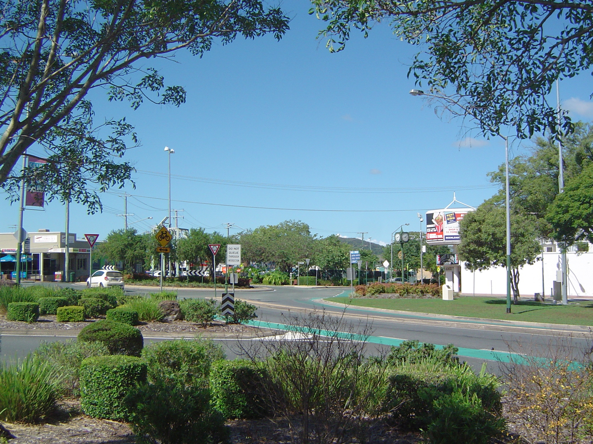 Photo of George Road roundabout, Beenleigh, Queensland, Australia.